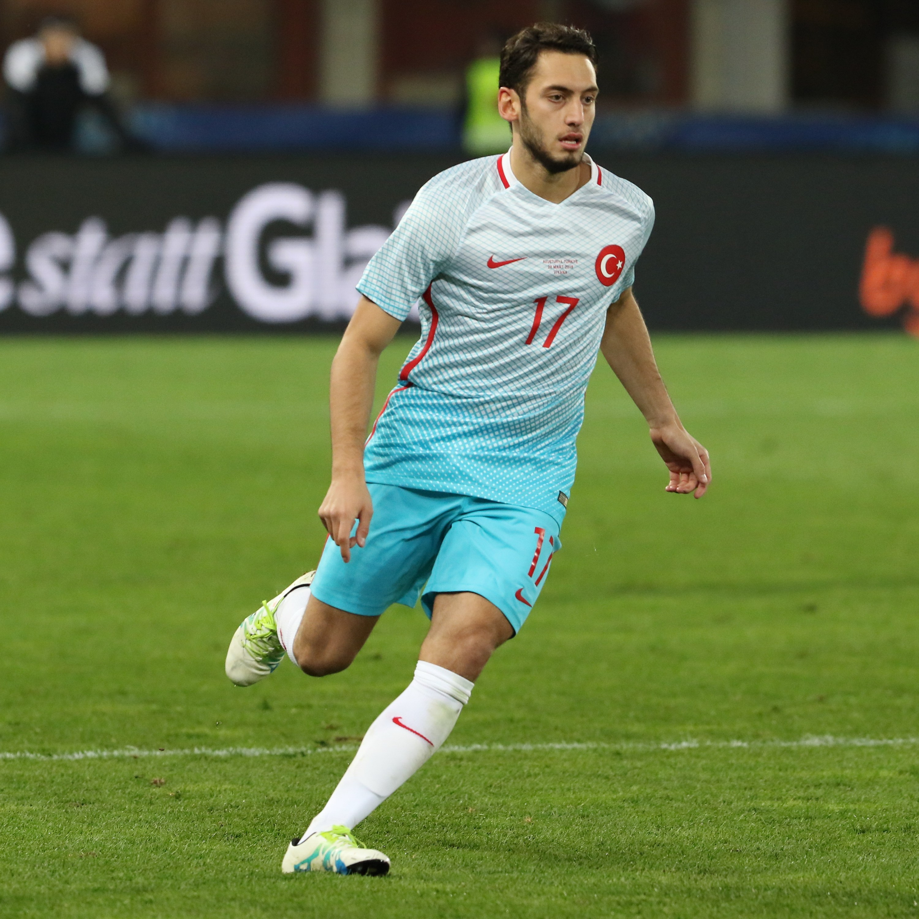 Friendly match – Austria (red shirts) vs. Turkey (blue shirts) 1–2 (1–1) on 2016-03-29 in Ernst-Happel-Stadion, Vienna